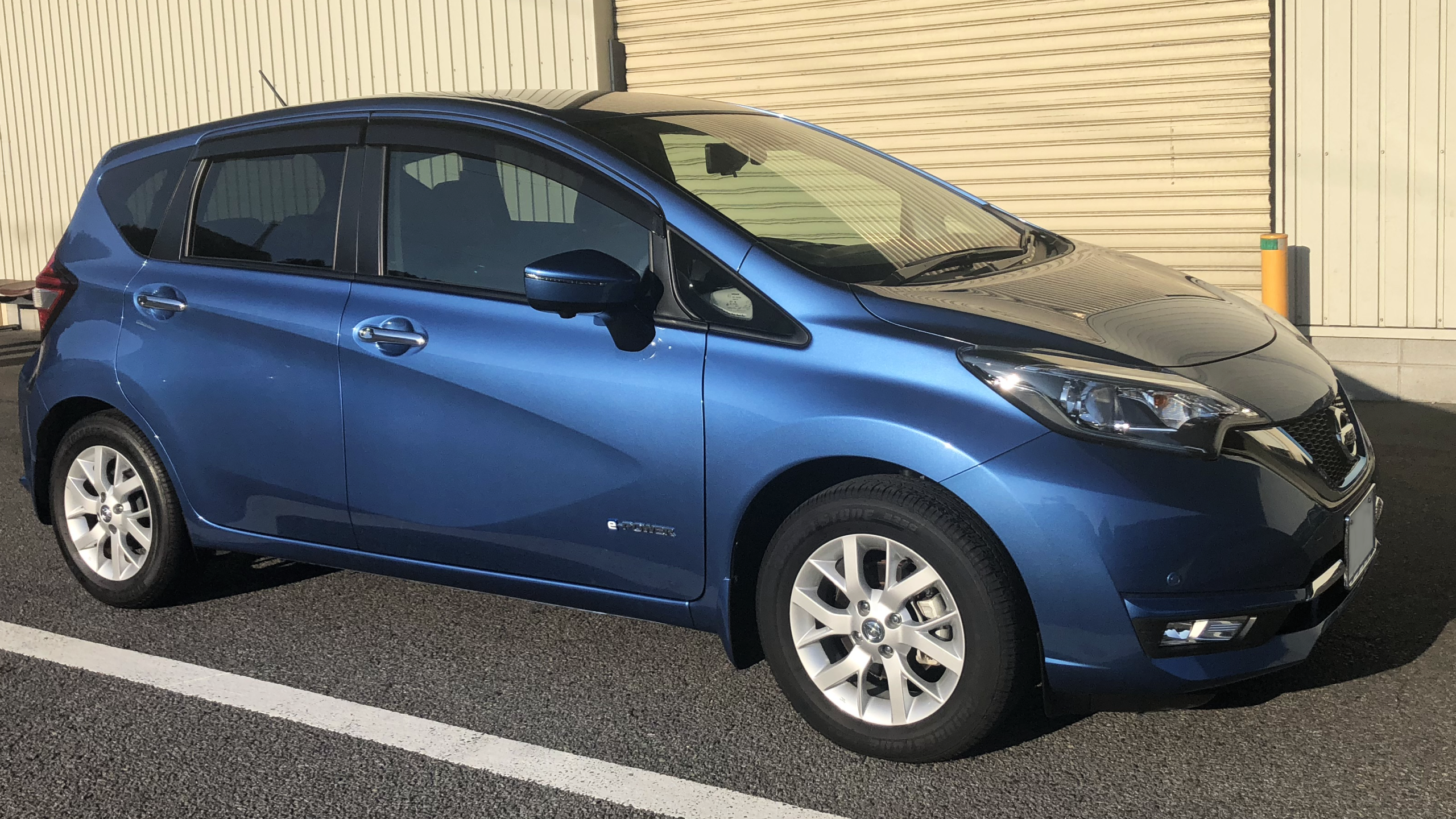 2017 Nissan NOTE e-POWER MEDALIST (E12).Photographed in Japan.